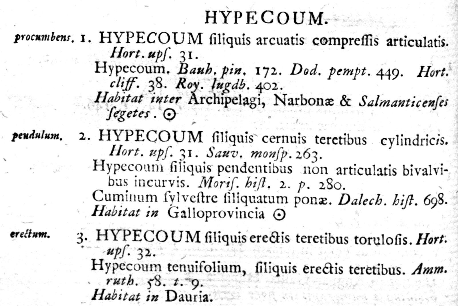 Species Plantarum entry for Hypecoum. Description of the three known to Linnaeus species of the genus